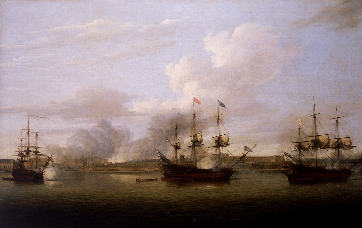 The Capture of Chandernagore, March 1757 Lying ten miles up river from Calcutta, Chandernagore was the administrative centre of the French East India Company. The battle there was one of the many fought between the French and English on the sub-continent during the Seven Years War, 1759-63. It gave the East India Company effective control of Calcutta and the Bengal hinterland. Britain finished the war as the dominant European power in India, and was well-placed to take advantage of the weakening political and economic power of the Moghul Empire. Chandernagore’s capture after a ten-day bombardment by Lieutenant-Colonel Robert Clive and Rear-Admiral Watson was the first step in the British driving the French from Bengal. The French who escaped took shelter with the Nawab, whom Clive shortly afterwards defeated at Plassey. This ended the French influence in Bengal. This painting commemorates the event some 14 years later. It shows Watson’s ships, ‘Kent’, ‘Tiger’ and ‘Salisbury’ firing on the town and fort from an anchored position. The action is close to land and the buildings along the shoreline are clearly identifiable. The leading ship, the ‘Tiger’ is on the right of the picture, and in the centre is the ‘Kent’ with a couple of boats under her stern. It is flying Rear-Admiral Watson’s flag on the foremast and a red flag giving the signal to the ships to engage at the main. Both these ships are firing on the fort and on the far left the ‘Salisbury’ is also firing on the town. The effect of the smoke from the guns and fires can be seen blowing over the land to the right. It is signed and dated ‘D. Serres.1771’. The Capture of Chandernagore, March 1757